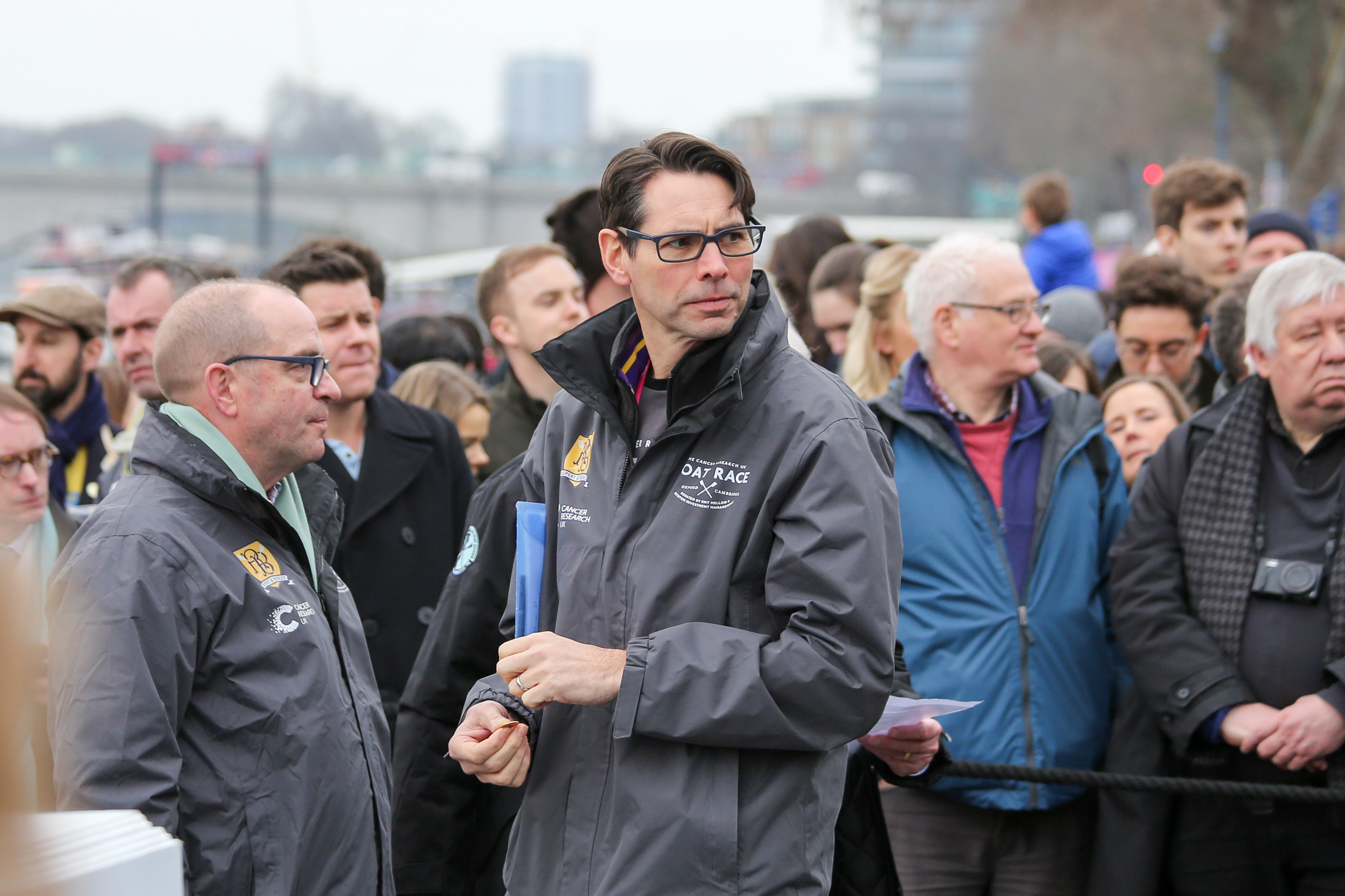 The Cancer Research UK Boat Race 2018 - Men's Reserve Race - Umpire - Richard Phelps